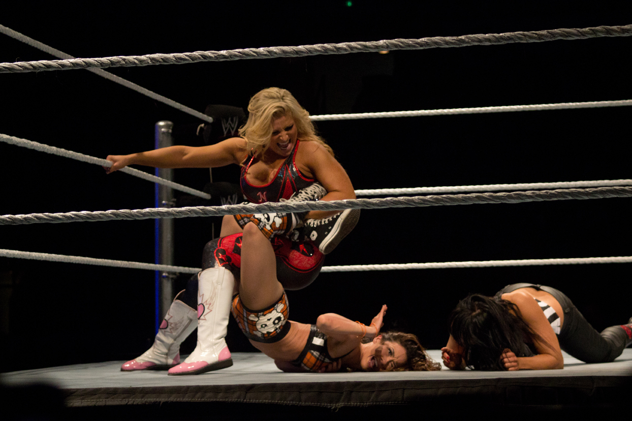 Dirty Sharpshooter